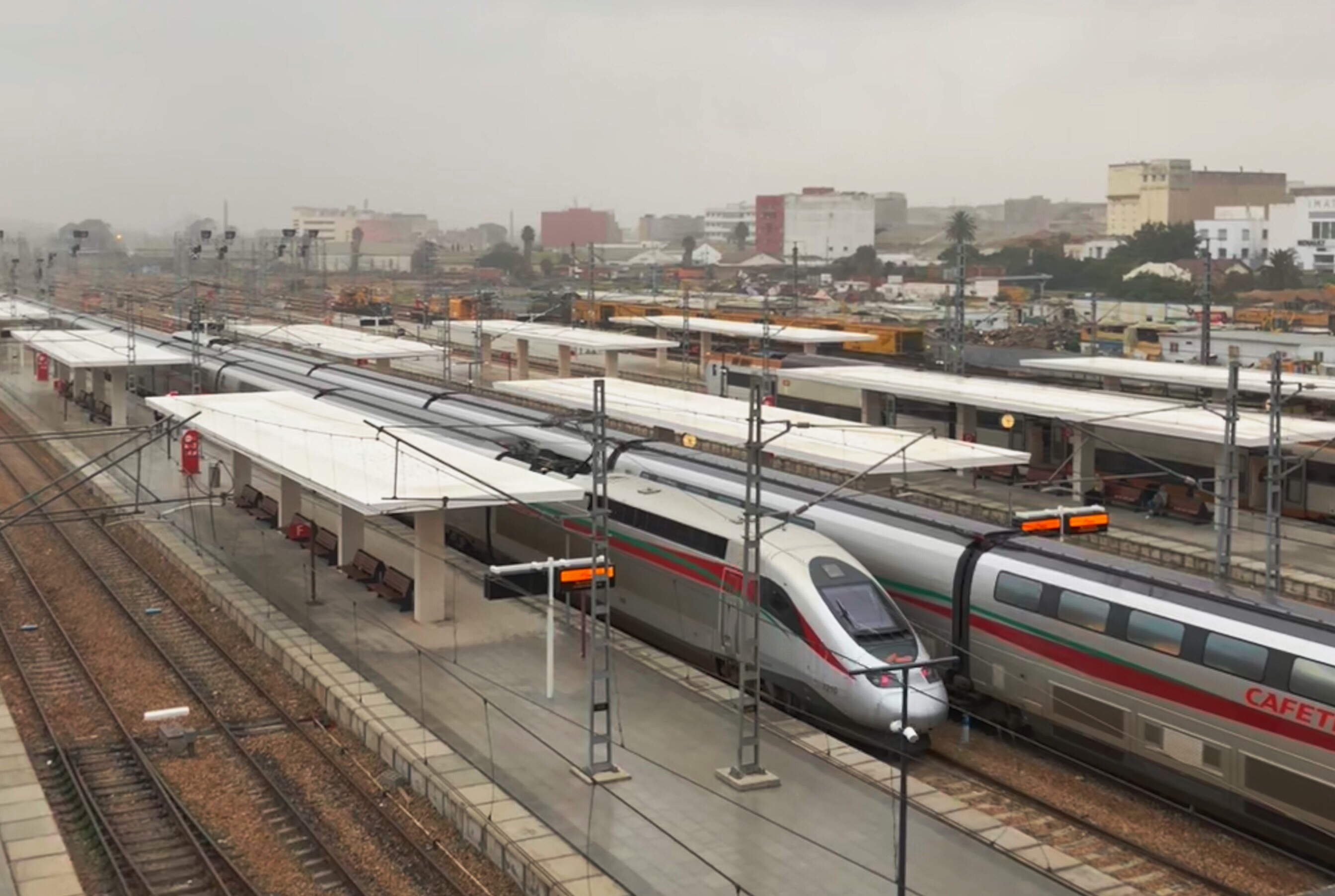 Two Al Buraq trains at Casa Voyageurs train station in Casablanca, Morocco